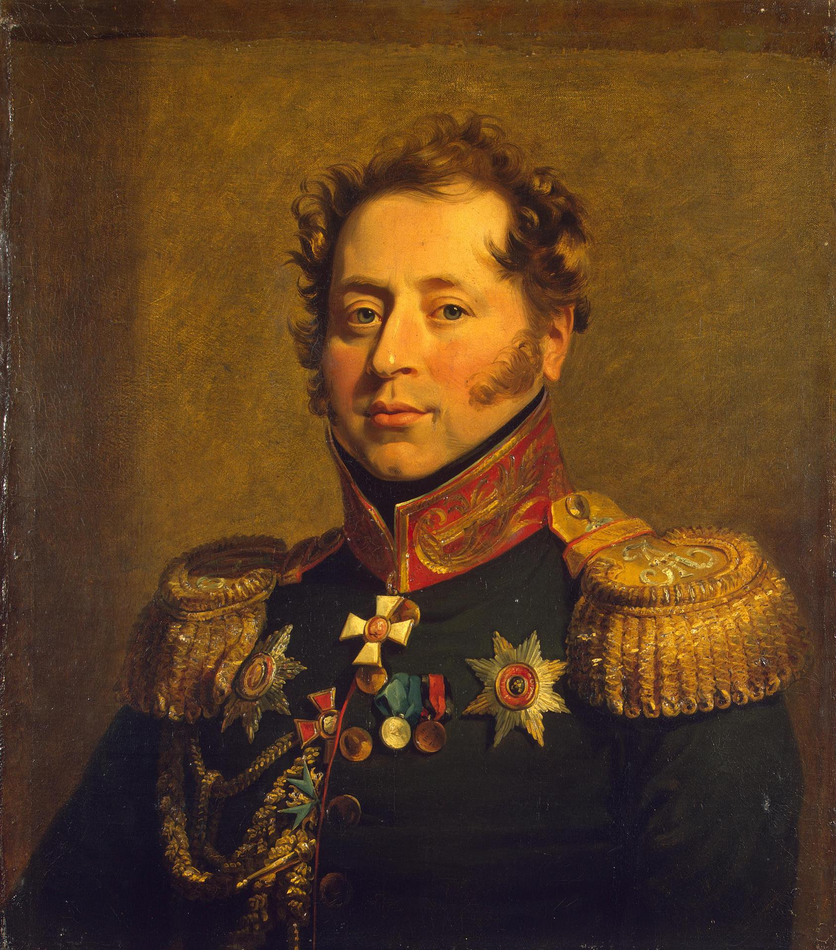 Nikolay Mikhailovich Borozdin 2-nd (1777-1830), General of the cavalry and General-adyutant general of the Russian Empire.